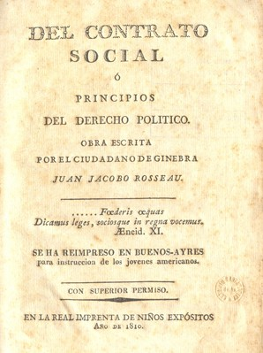 Book "The Social Contract" by Jean-Jacques Rousseau, translation into Spanish by Mariano Moreno (1810). Printed at the "Real Imprenta de niños expósitos"